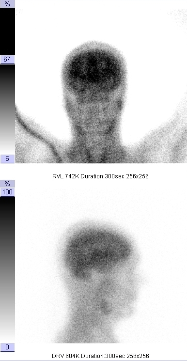 Scintigrafy of brain perfusion of a healthy volunteer.